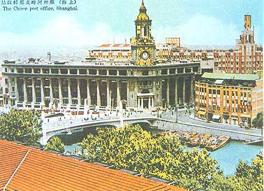 General Post Office Building, Shanghai in the 1930s